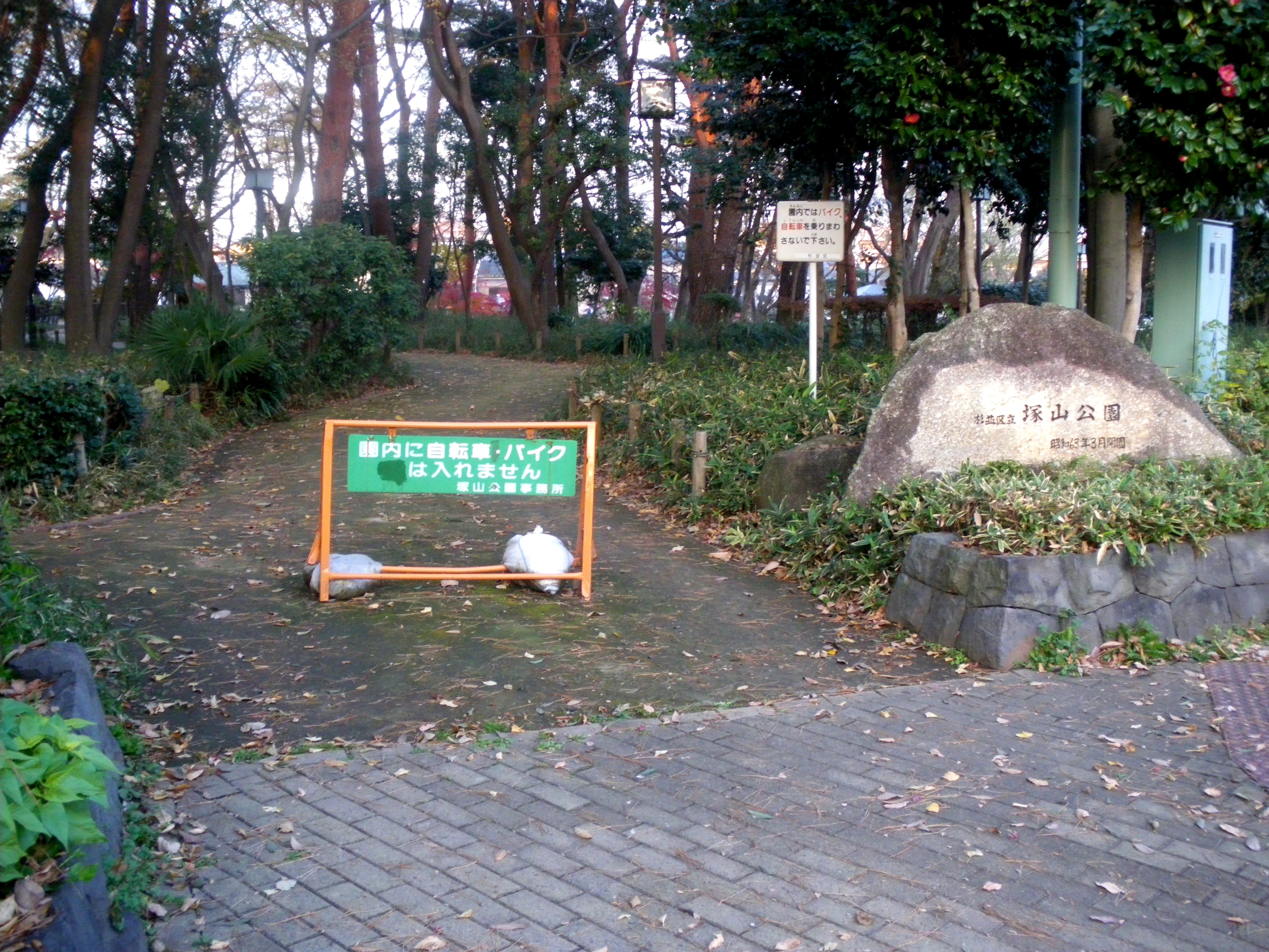 Tsukayama Park(Shimotakaido,Suginami,Tokyo)